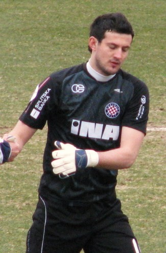 Danijel Subašić